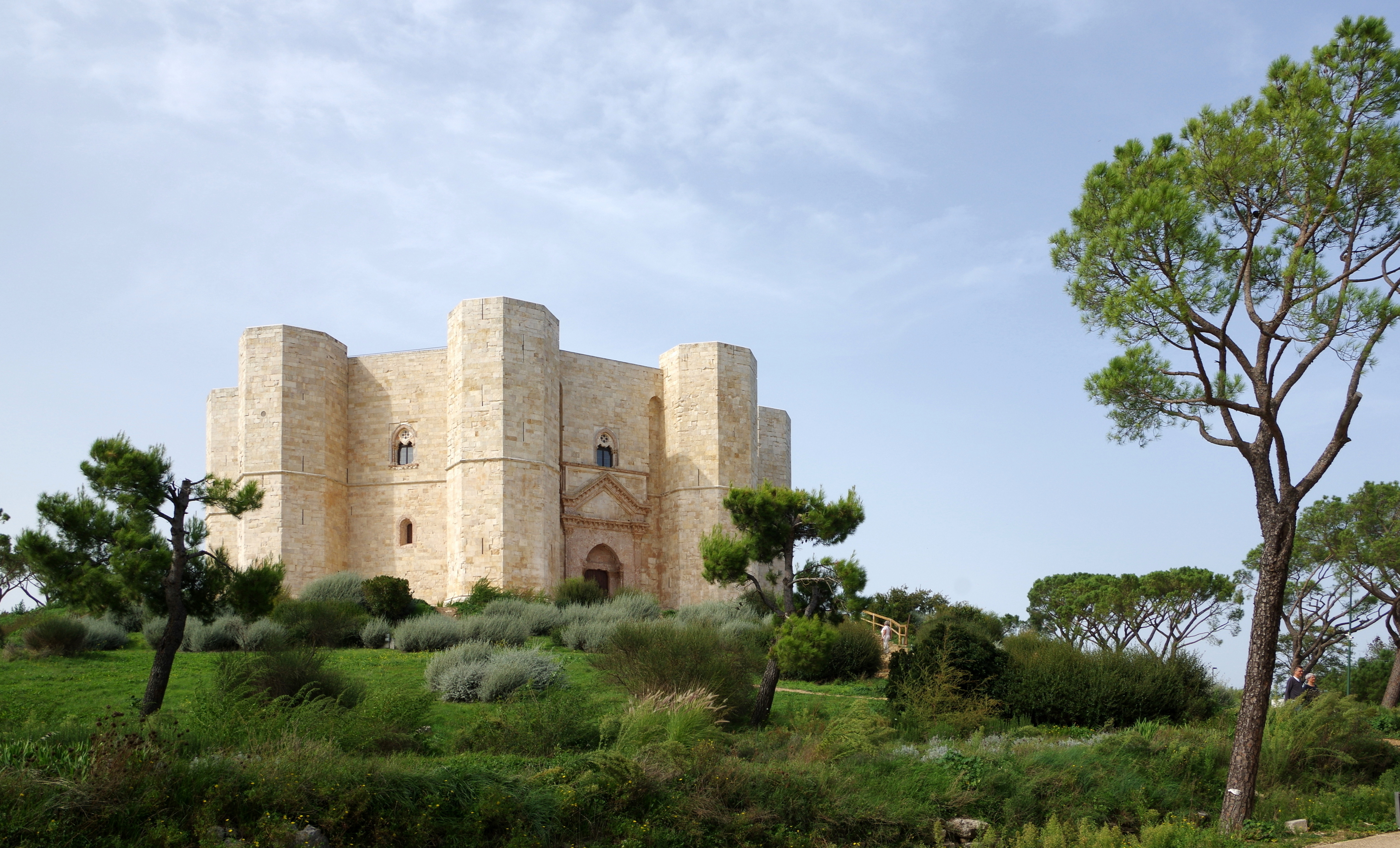 Italy, Castel del Monte